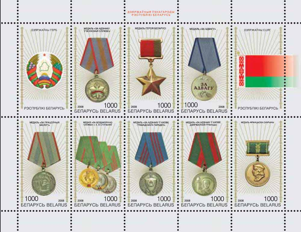 Stamps with medals of Belarus